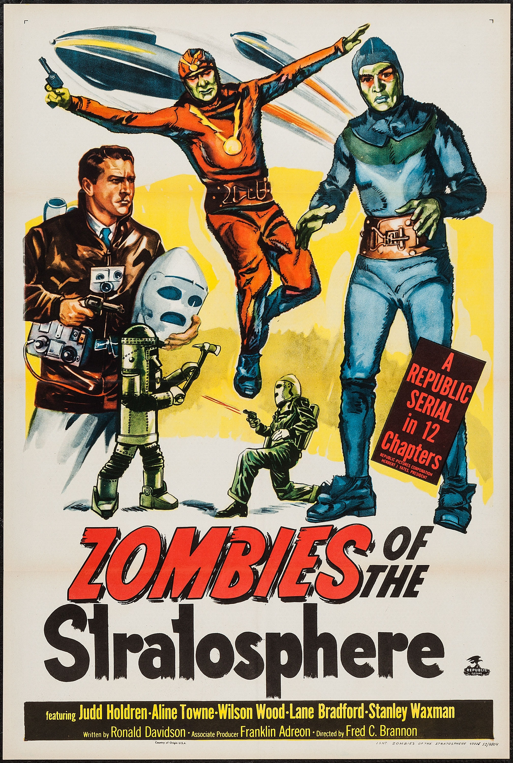 Lobby card for the 1952 American film Zombies of the Stratosphere. The item has no copyright markings on it as can be seen in the links above. At bottom left is Country of origin USA. At bottom right is 1sht Zombies of the Stratosphere 43328 52/9804.